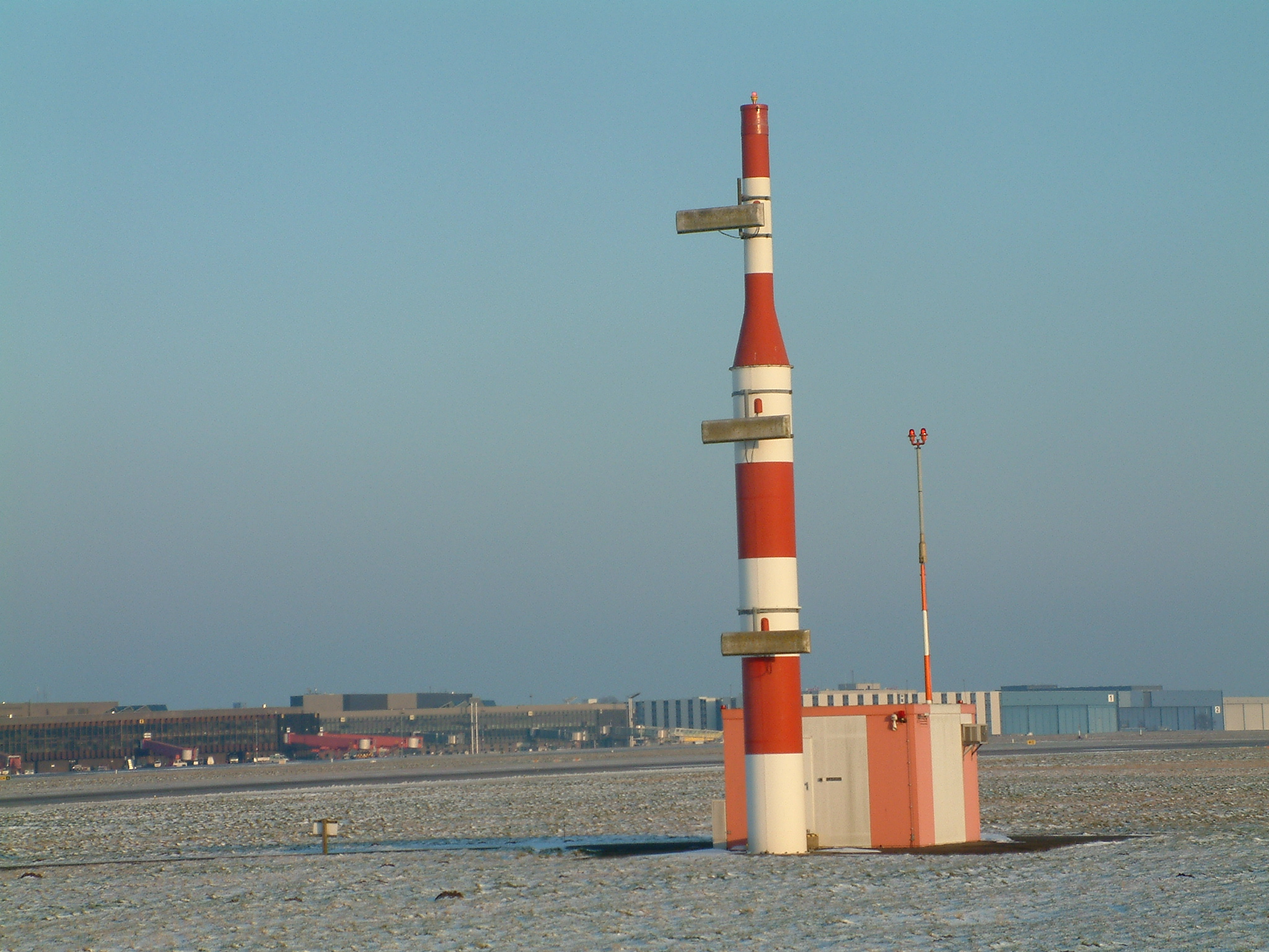 Glideslope antenna array, Runway 09R, EDDV Hanover/Langenhagen International Airport. DME antenna for HDB DME above building.